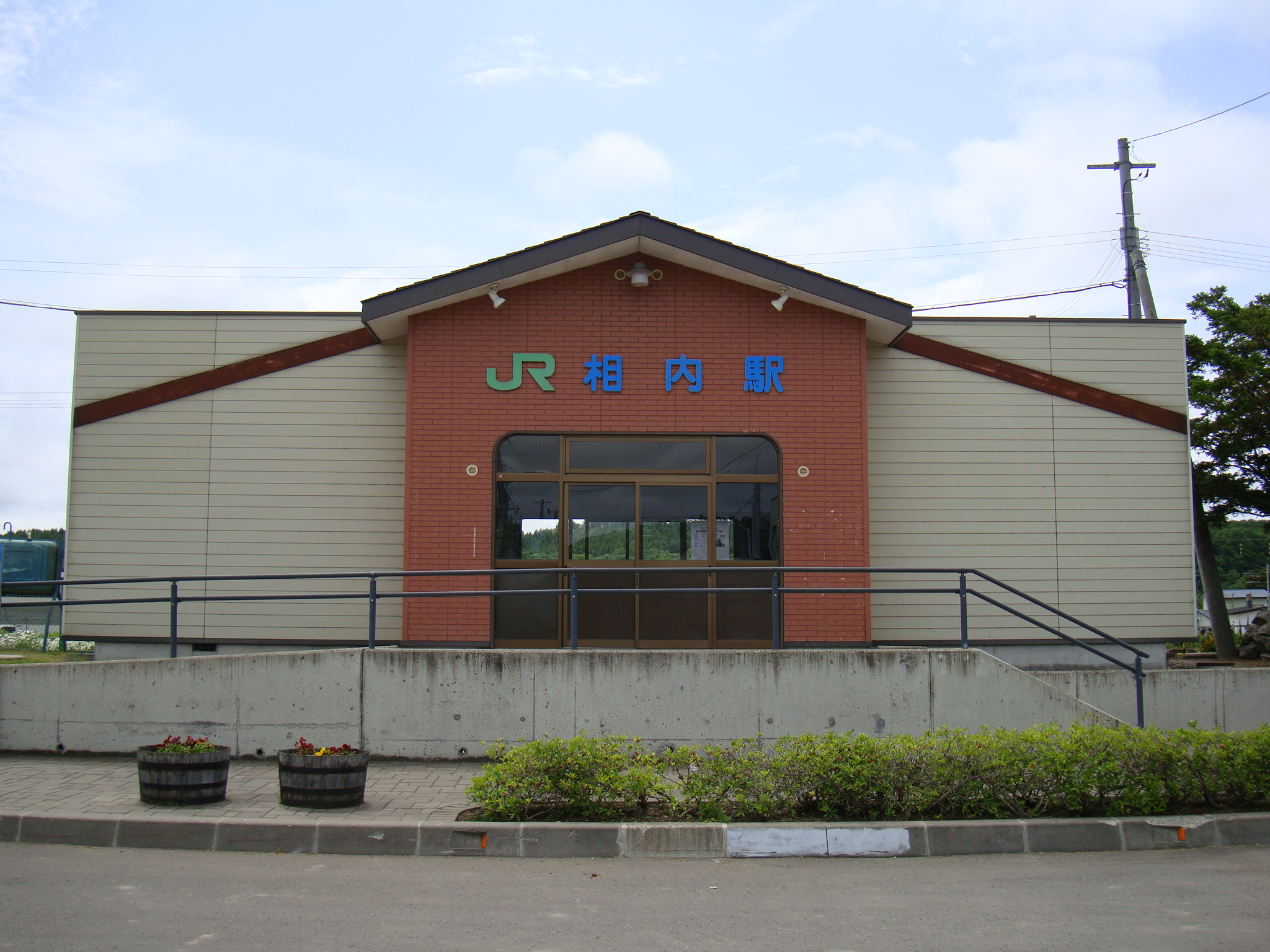 Ainonai Station